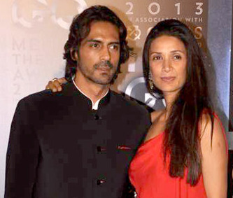 Arjun Rampal(left) with his wife Mehr Rampal(Jesia) at the GQ awards, 2013.